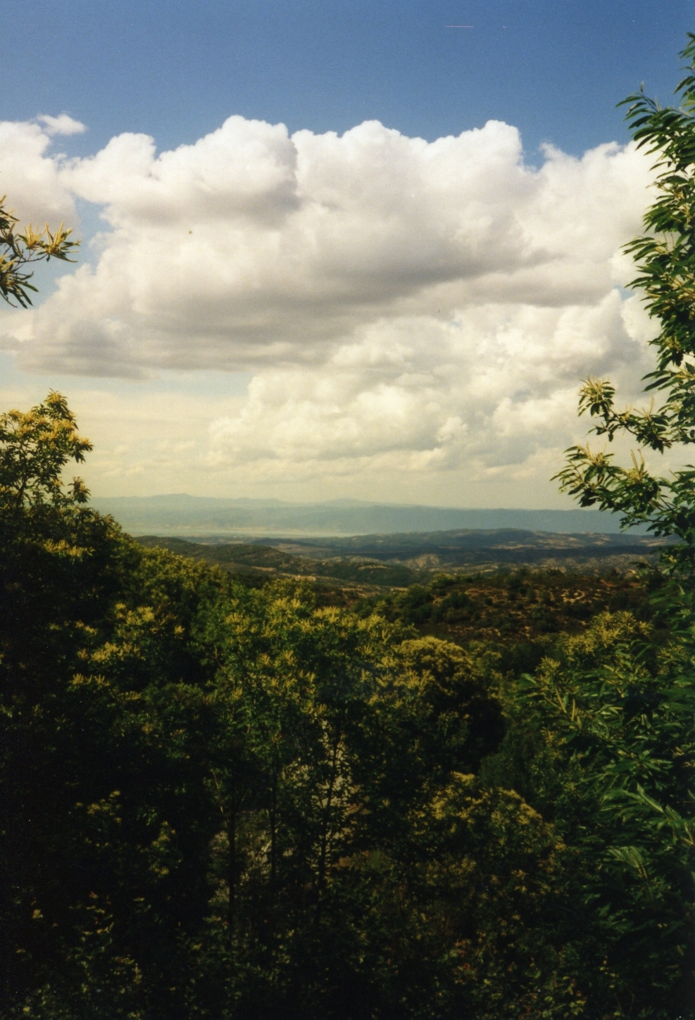 Cholomondas mountain, Chalkidiki, Greece. View from the road passing mountain top towards the south on Sithonia peninsula.